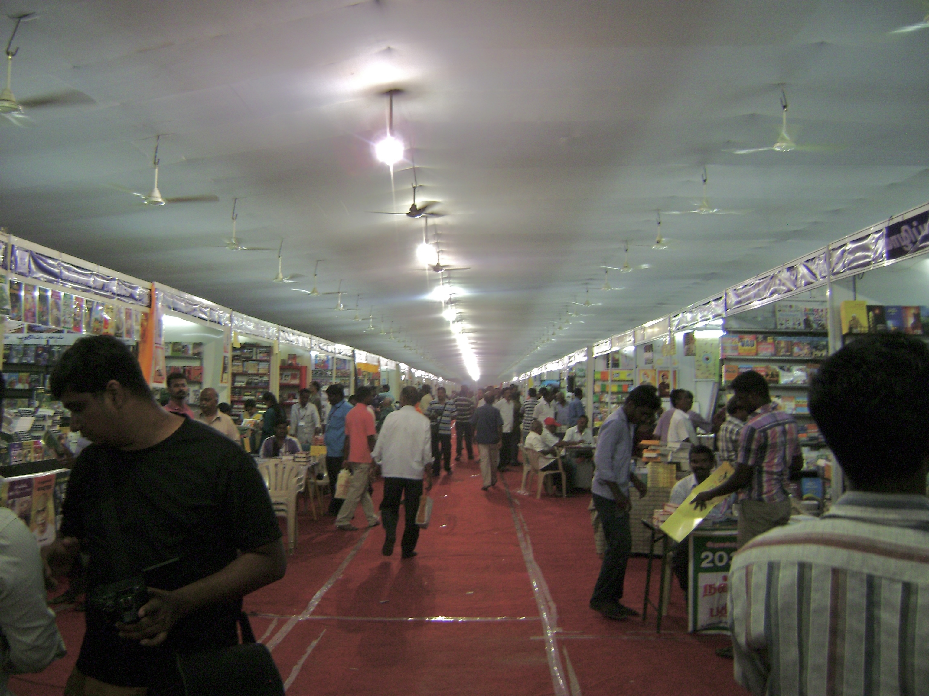 Book Stals - 10th Book Fair at Madurai 28 August 2015 - 7 September 2015